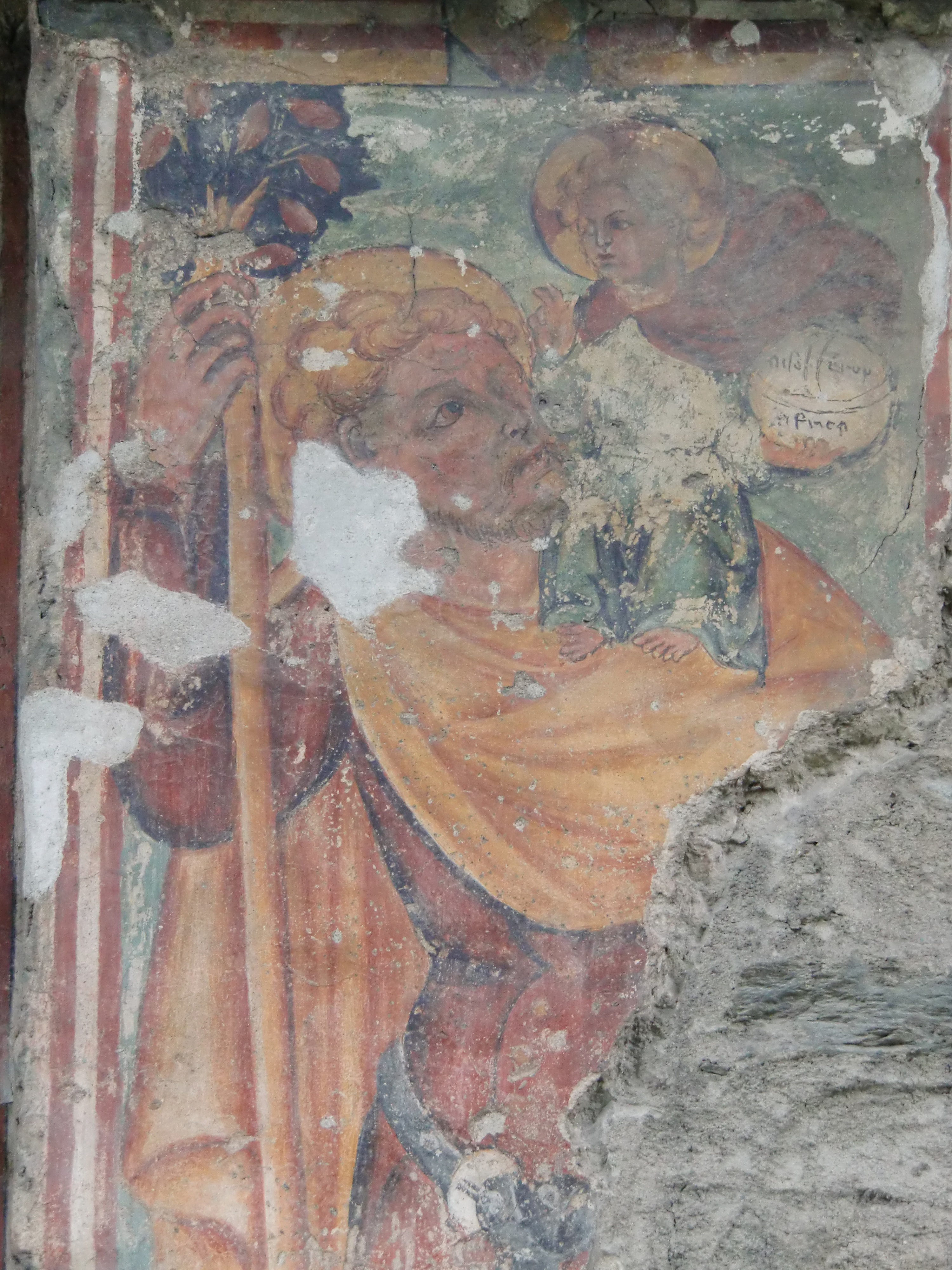 Arnad (Aosta Valley), church of San Martino, frescoes on the right side wall, Saint Christopher, first half of the XV century